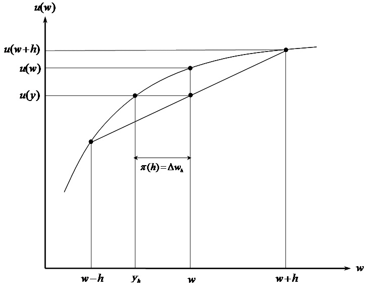 Utility function displaying risk aversion